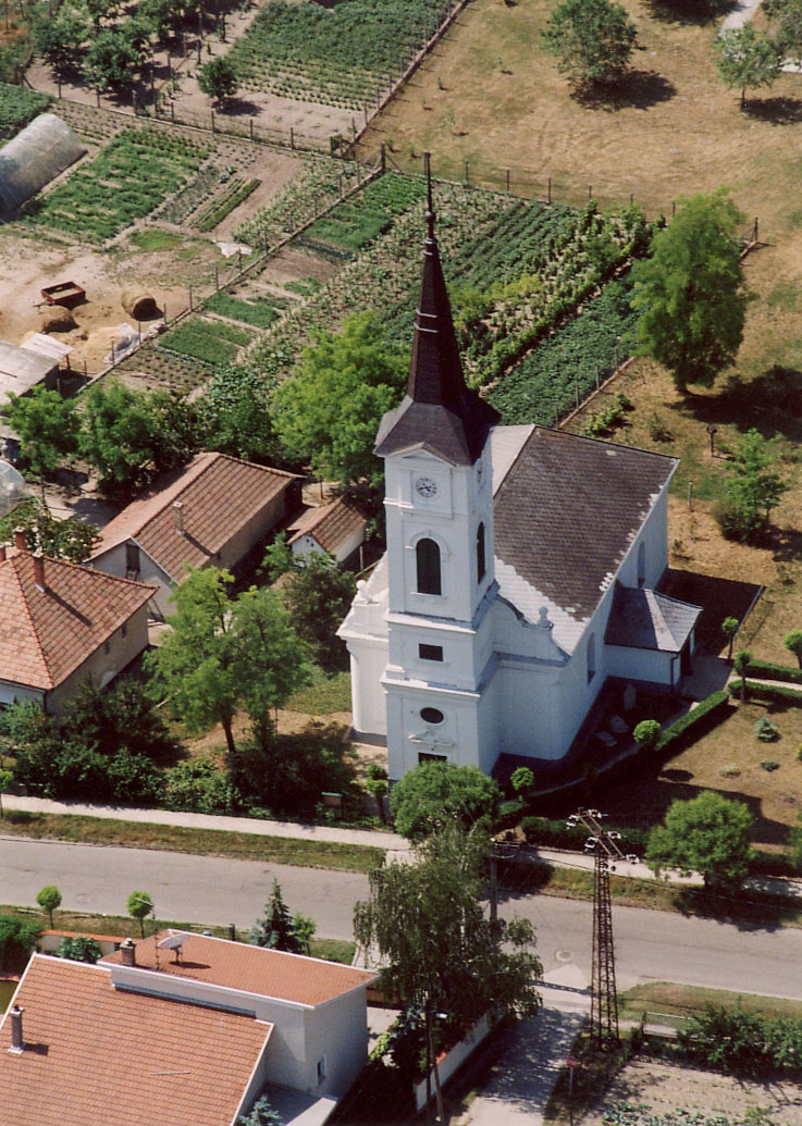 Reformed Churches of Dabas, a protected monuument building. - Loc:Dabas - Hungary - Europe